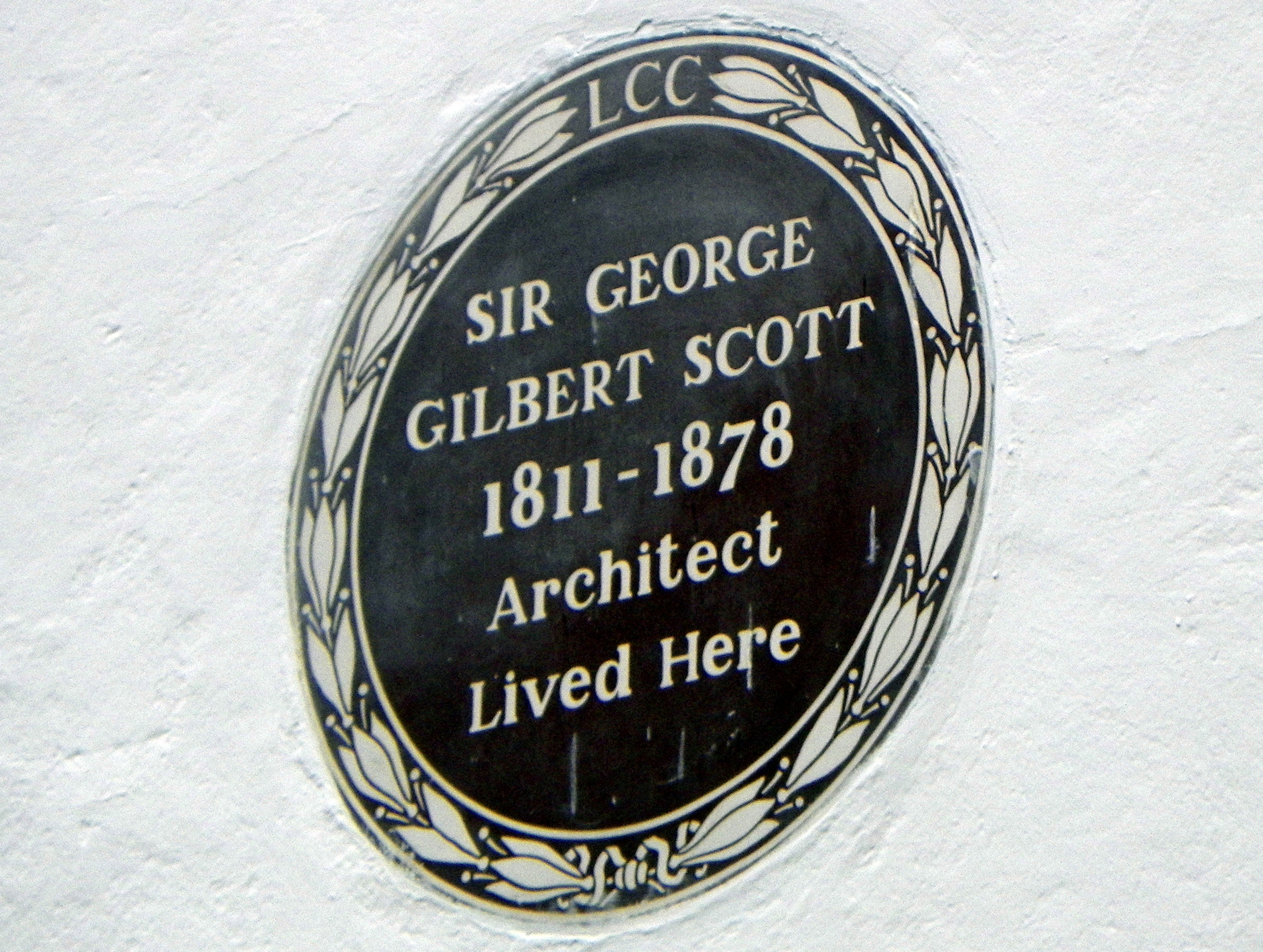 This plaque states that the architect Sir George Gilbert Scott lived in this house, Admiral's House, Admiral's Walk, Hampstead, London NW3 6RS.